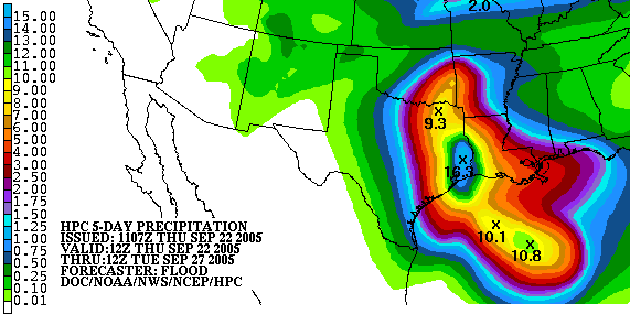 Precipitation accumulations forecast during the next 5 on Septembre 22, 2005, for Hurricane Rita.